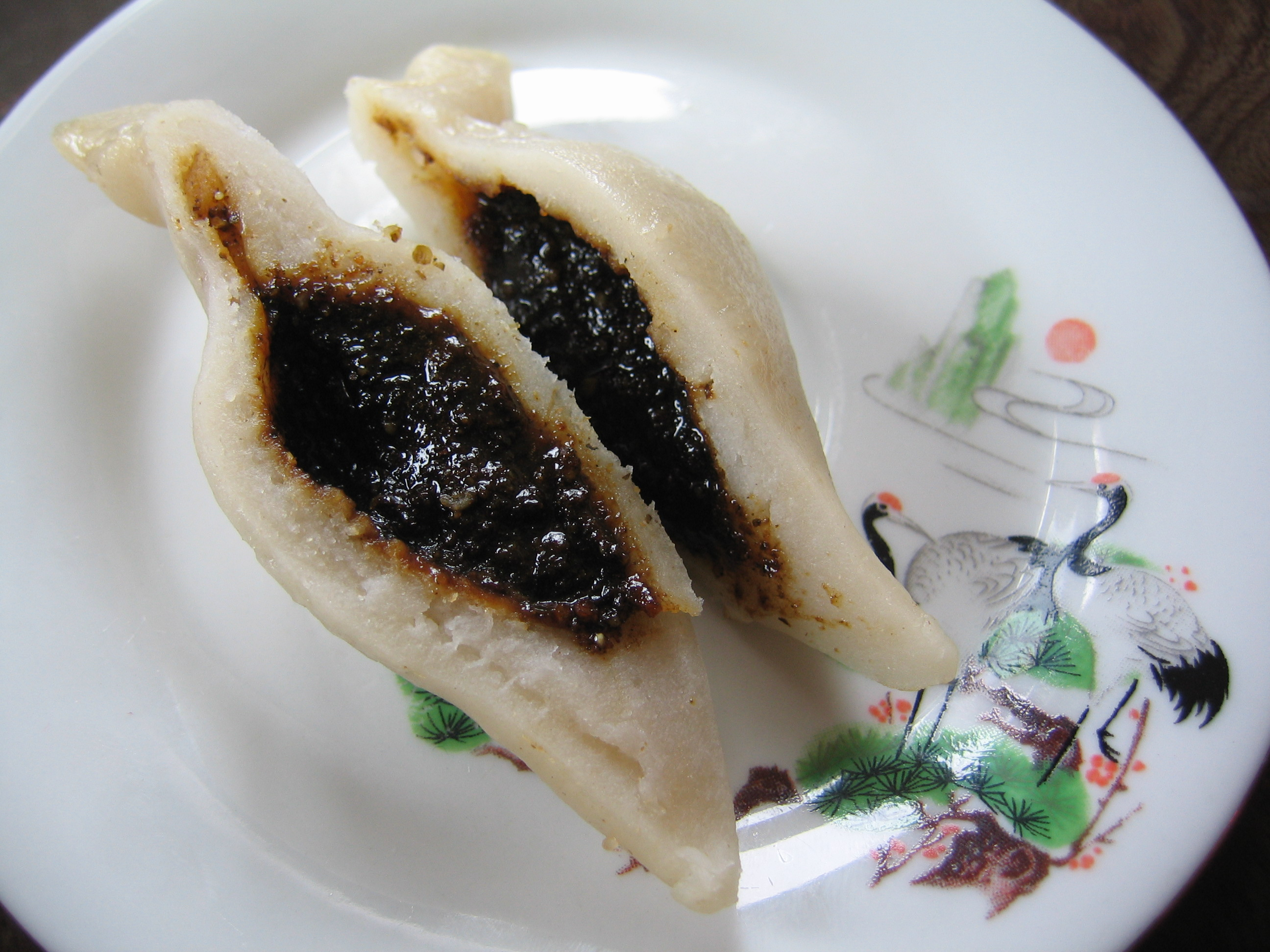 Internal view of Yomari... Yamiii.... sweet...